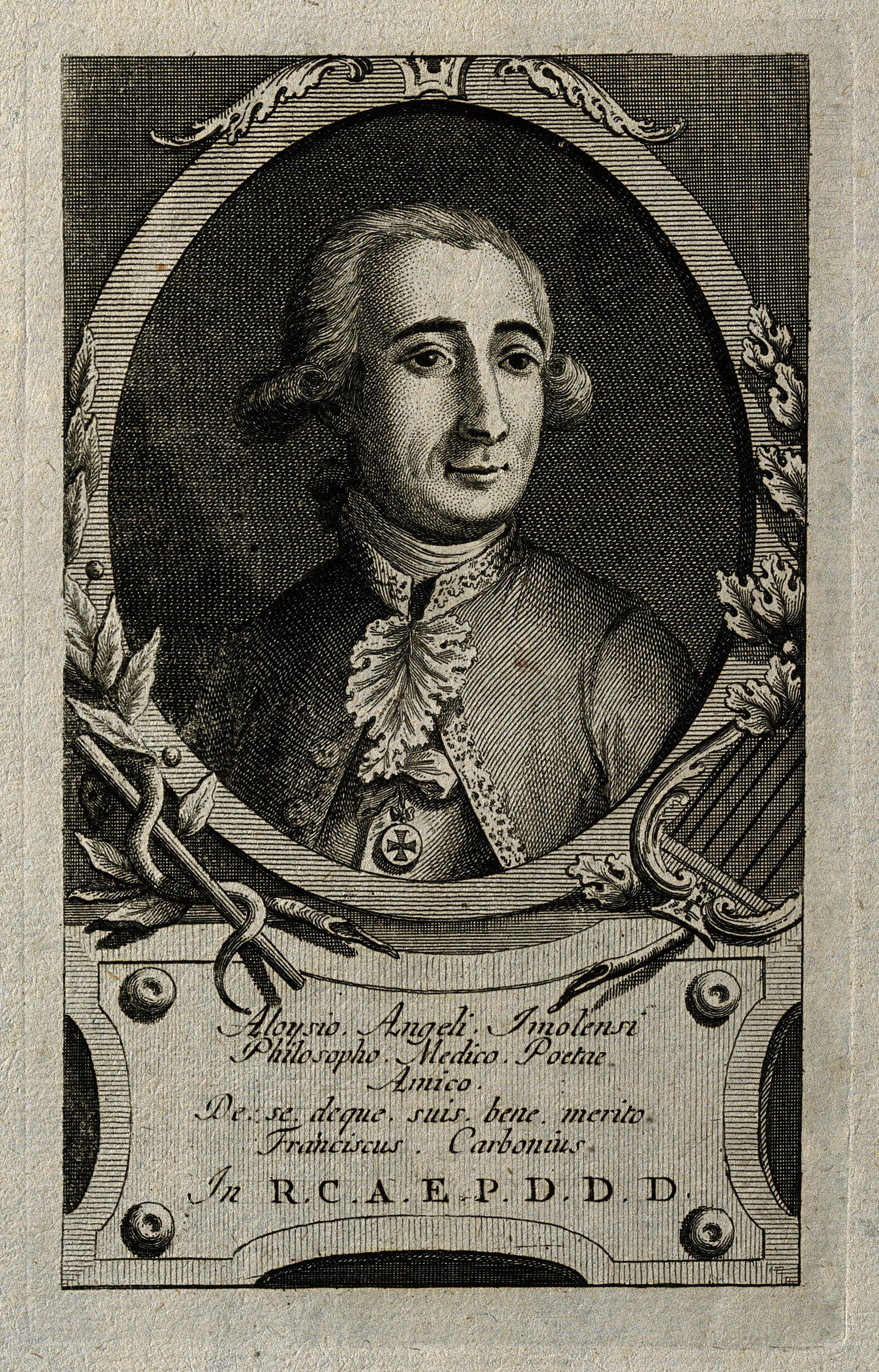 Luigi Angeli. Engraving. Iconographic Collections Keywords: intaglio prints; portrait prints; Luigi Angeli; angeli, luigi, 1739-1829